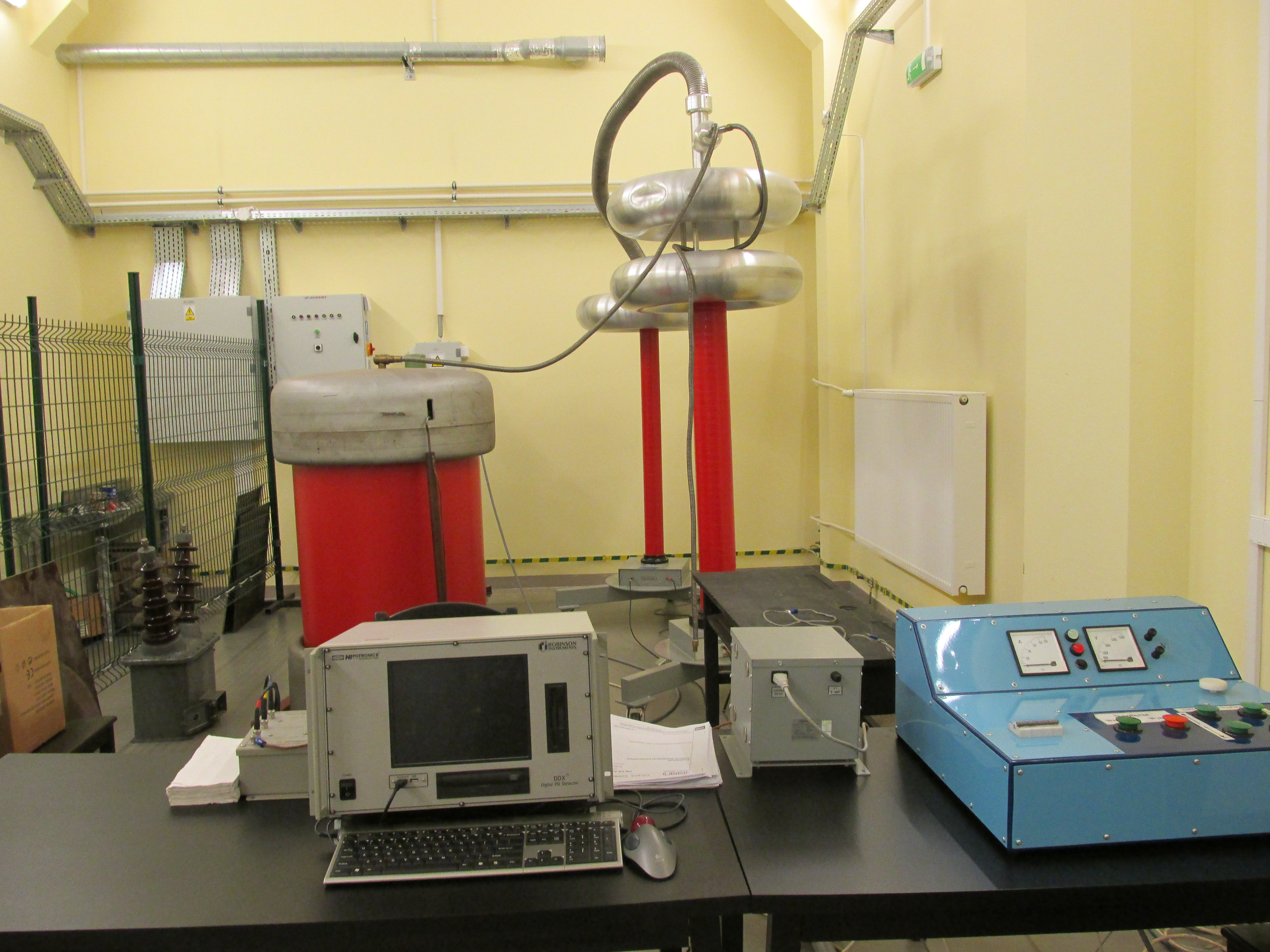 Arrangement dedicated for partial discharge (PD) measurement at high voltage (HV) devices